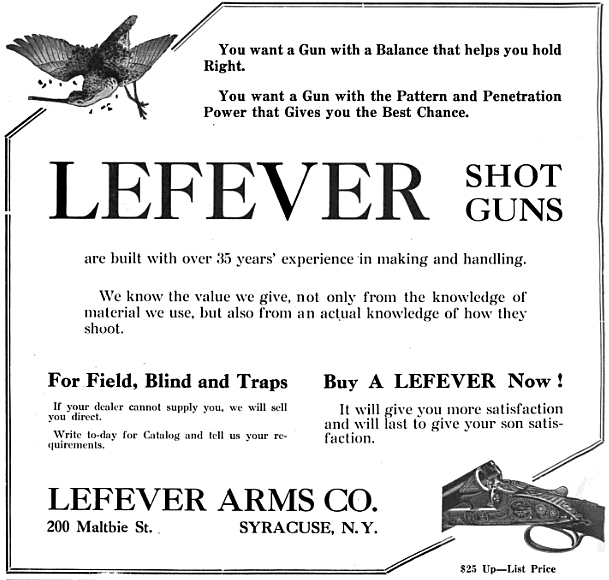 Lefever Arms Company